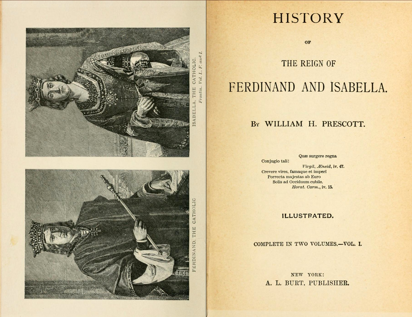 Frontispieces and title page of History of the reign of Ferdinand and Isabella (1838) by William Hickling Prescott. Published by A.L. Burt, New York.